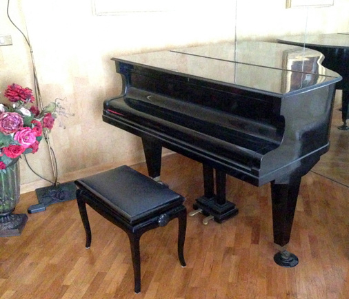 Coda Wohlfahrt tra le ultime produzioni di Hermann